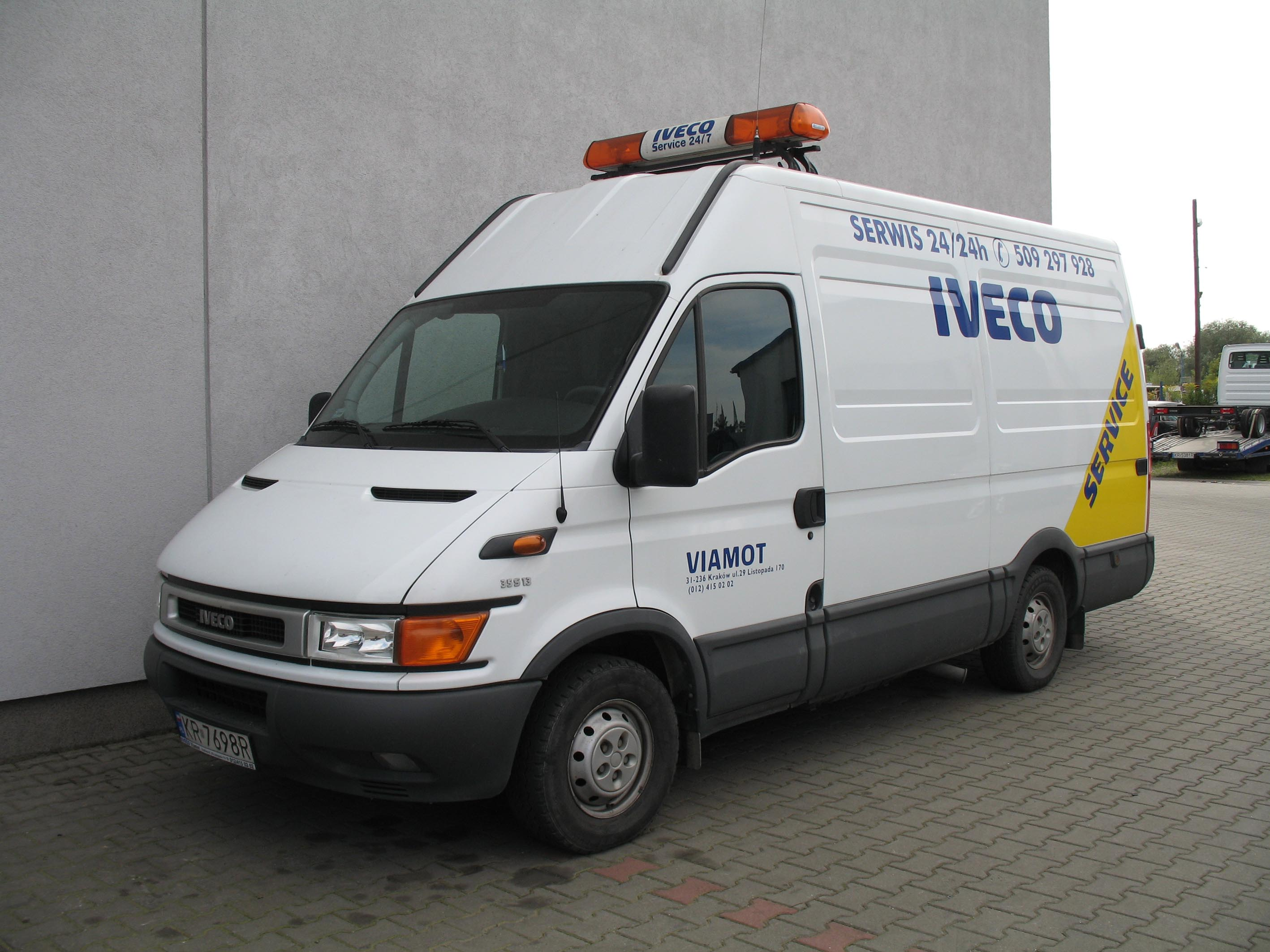 Iveco Daily 35S13 Mk III service van in Kraków, Poland.